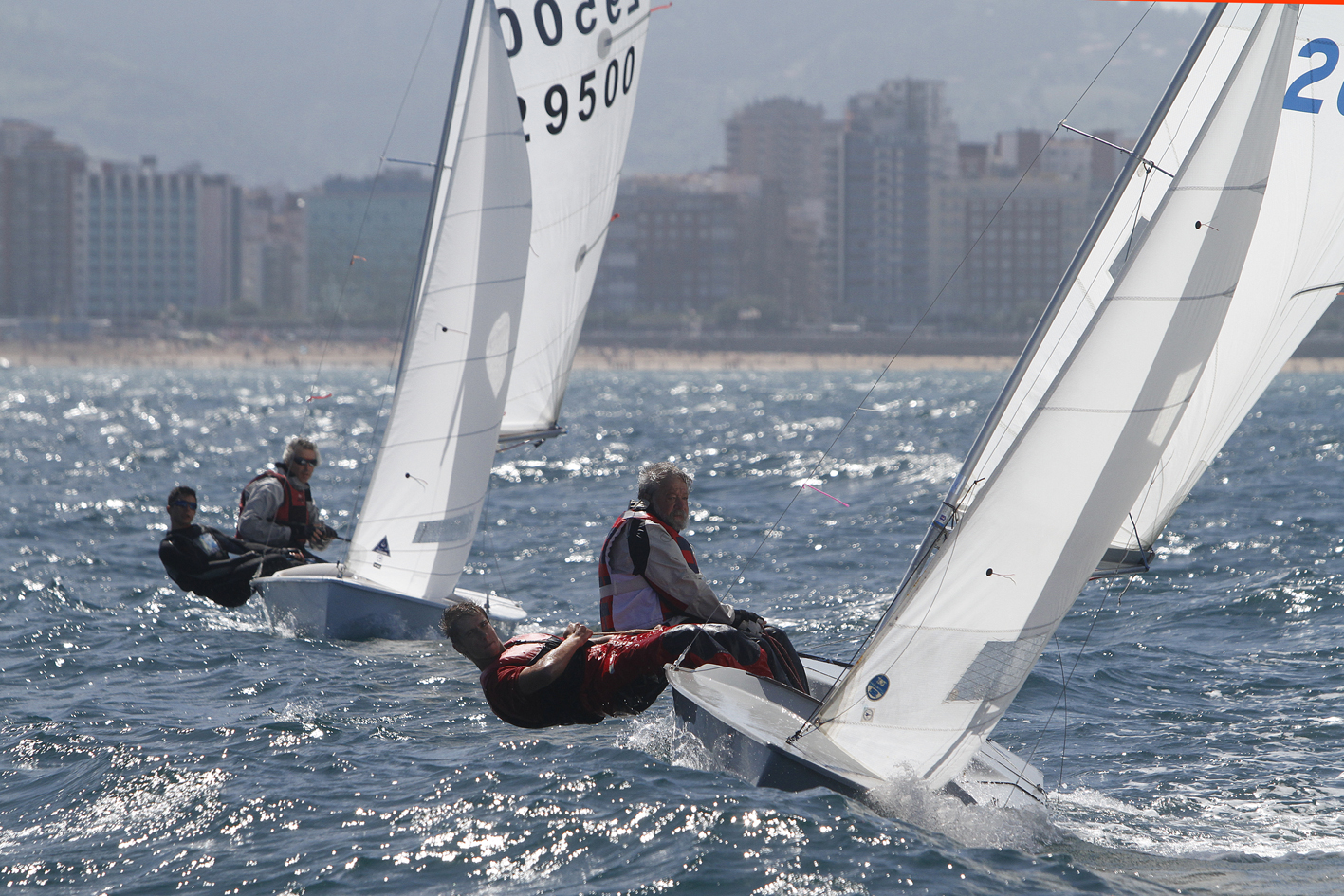 José Francisco García de Soto with César Arrarte at the 2014 Snipe South Europeans